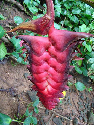 Dick Culbert: Heliconia mariae ranges from Guatemala to Columbia and Venezuela, here on the northwest coast of Panama. This style is sometimes called Firecracker or Beefsteak Heliconias. Note the red flowers peeking out from the bracts.